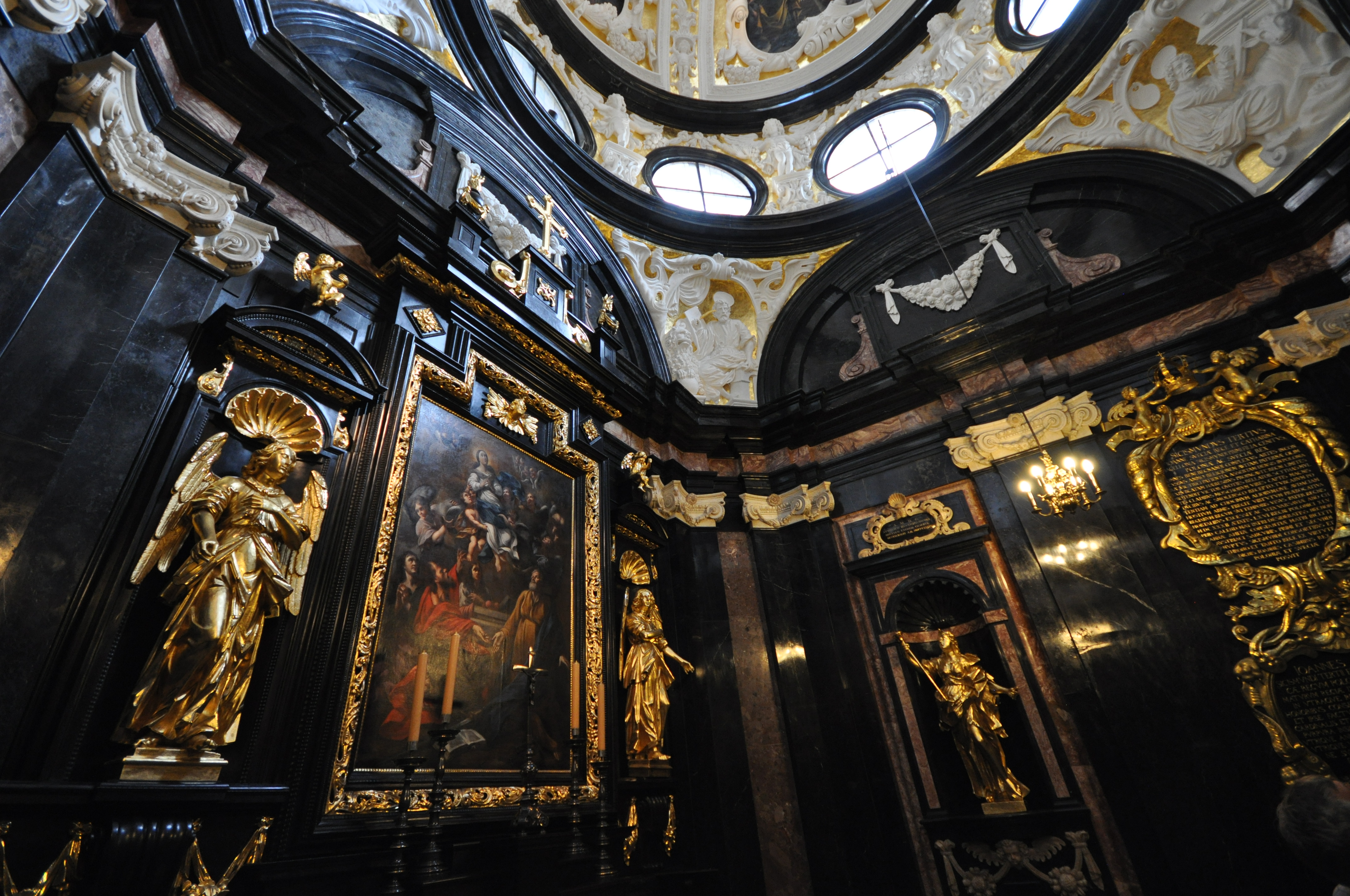 Vasa Chapel, The Royal Archcathedral Basilica of Saints Stanislaus and Wenceslaus on the Wawel Hill, Kraków, Poland